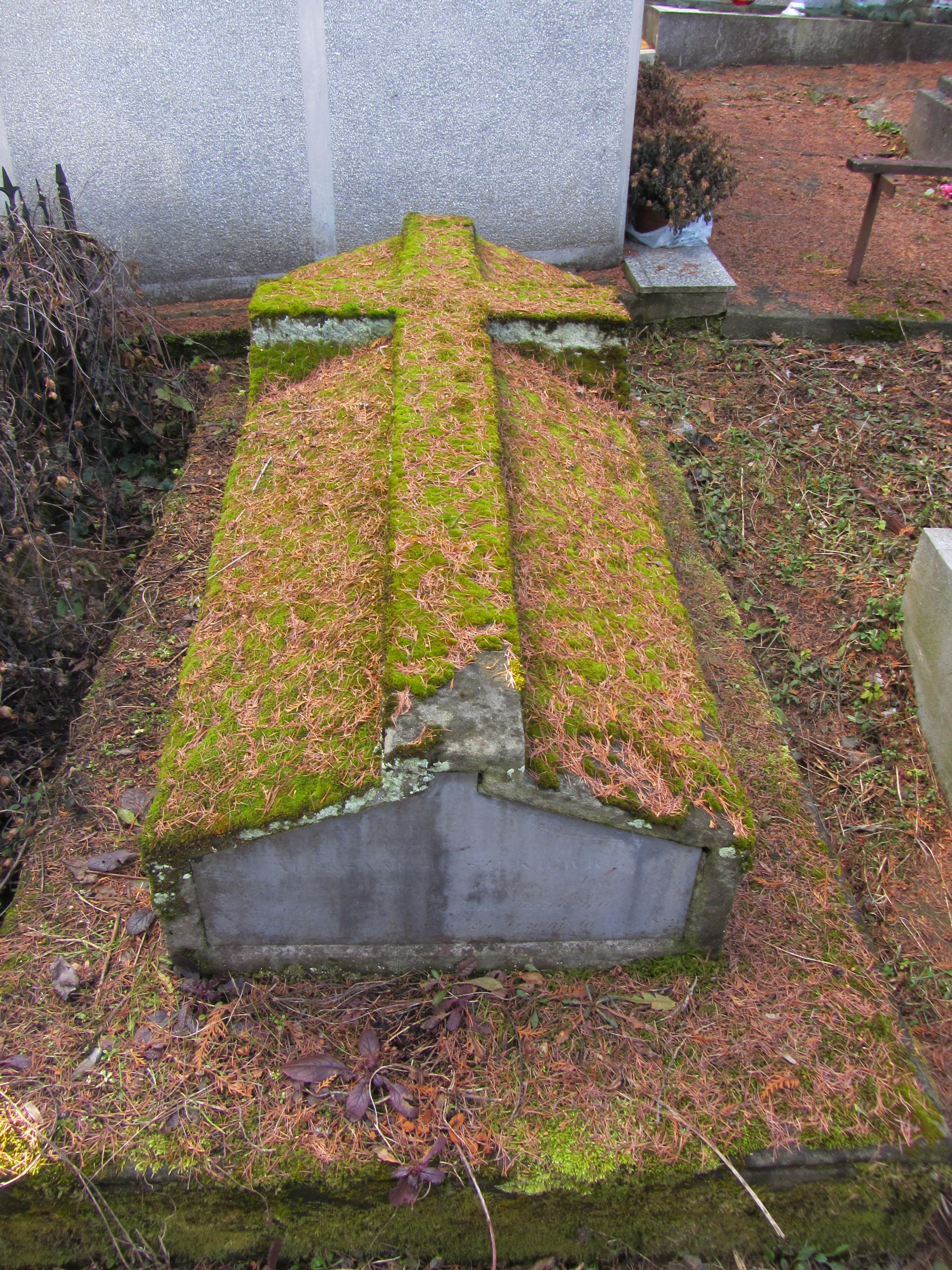 Aleksander Szukiewicz (1816-1885) grave2